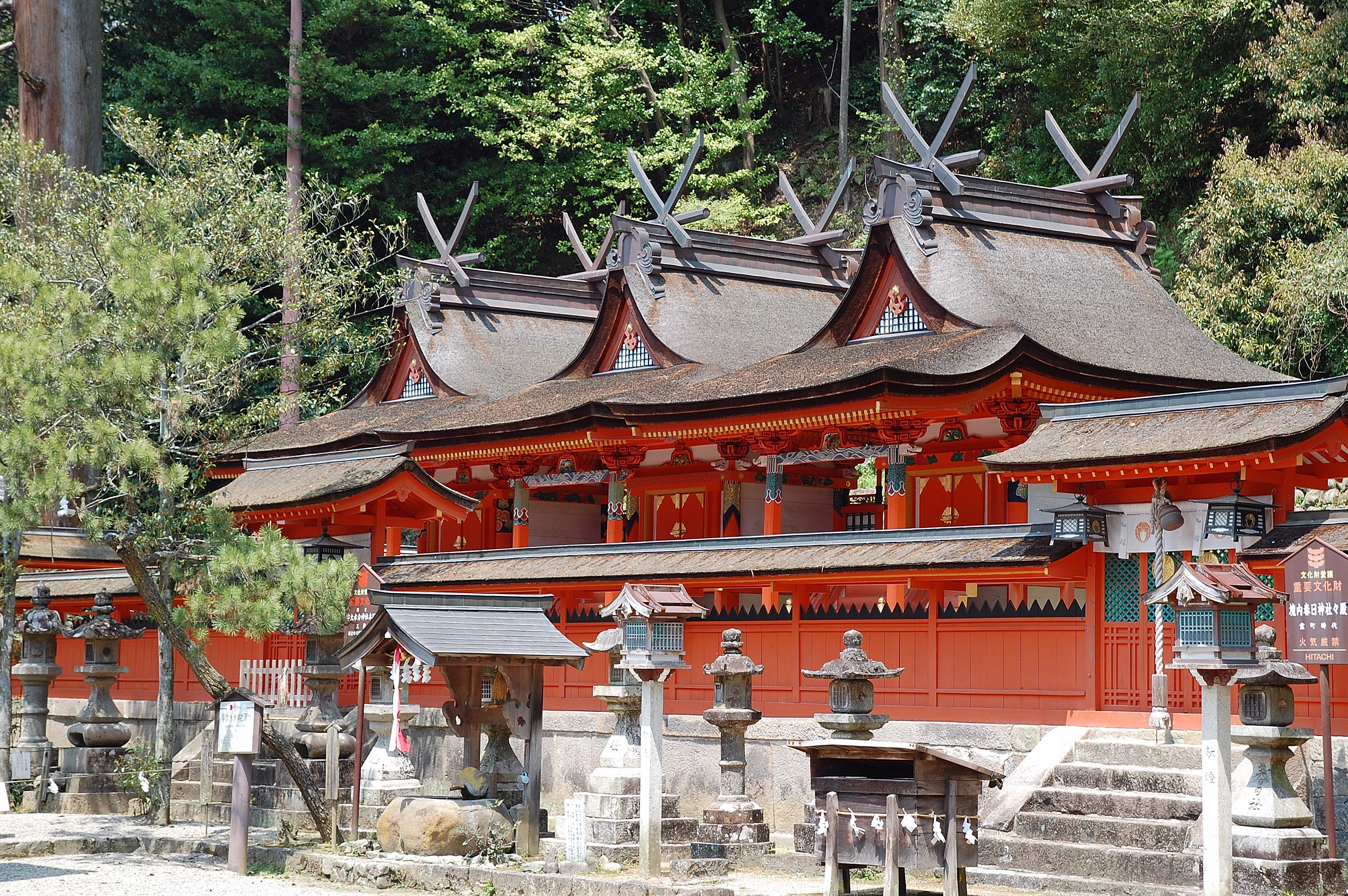 Japanese[edit] ファイルの概要[edit] Description